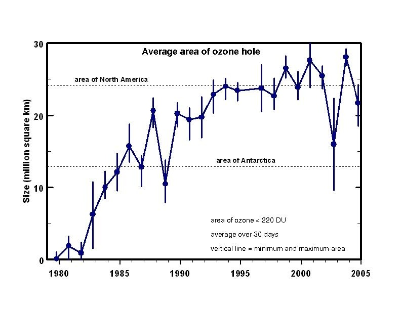 This image shows the growth of the average area of the ozone hole from 1979 to 2004 using data from Version 8 of the TOMS algorithm. We define the ozone hole as the area for which ozone is less than 220 Dobson Units, a value rarely seen under normal conditions. It shows that the ozone this low hardly occured at all in 1980, but by year 2000 covered an area larger than North America, 26.5 million square kilometers. (orginal caption)